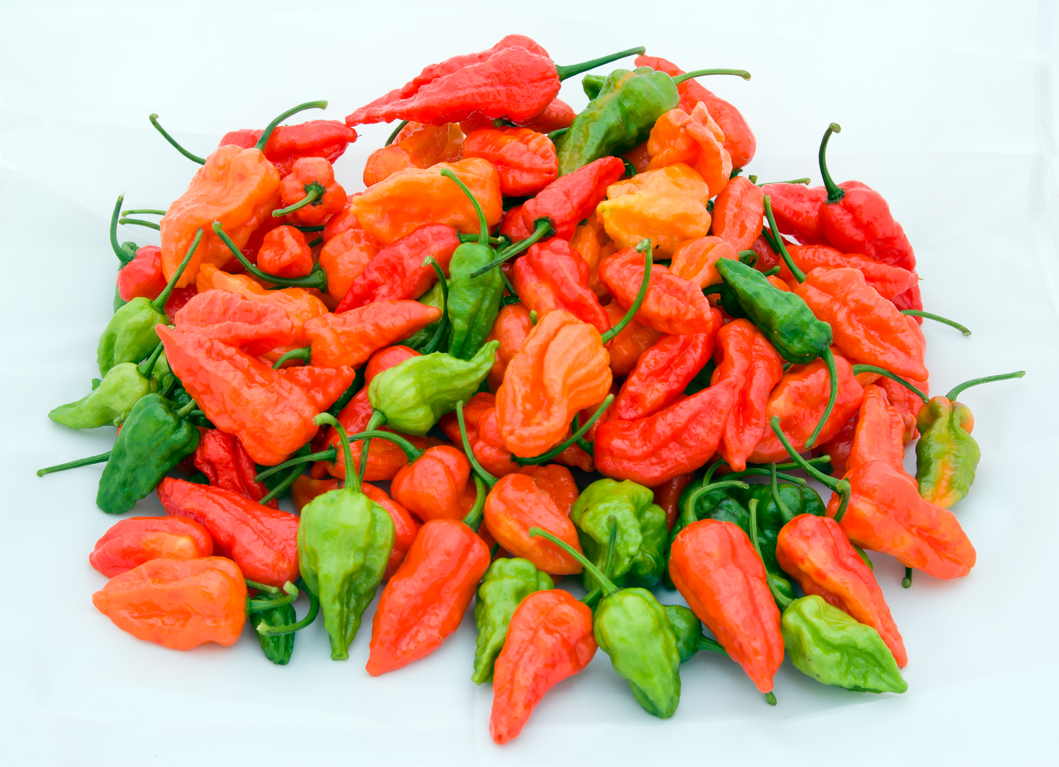 Naga Jolokia peppers at various stages of maturation. Grown at Canido (Ferrol-Galicia-Spain)